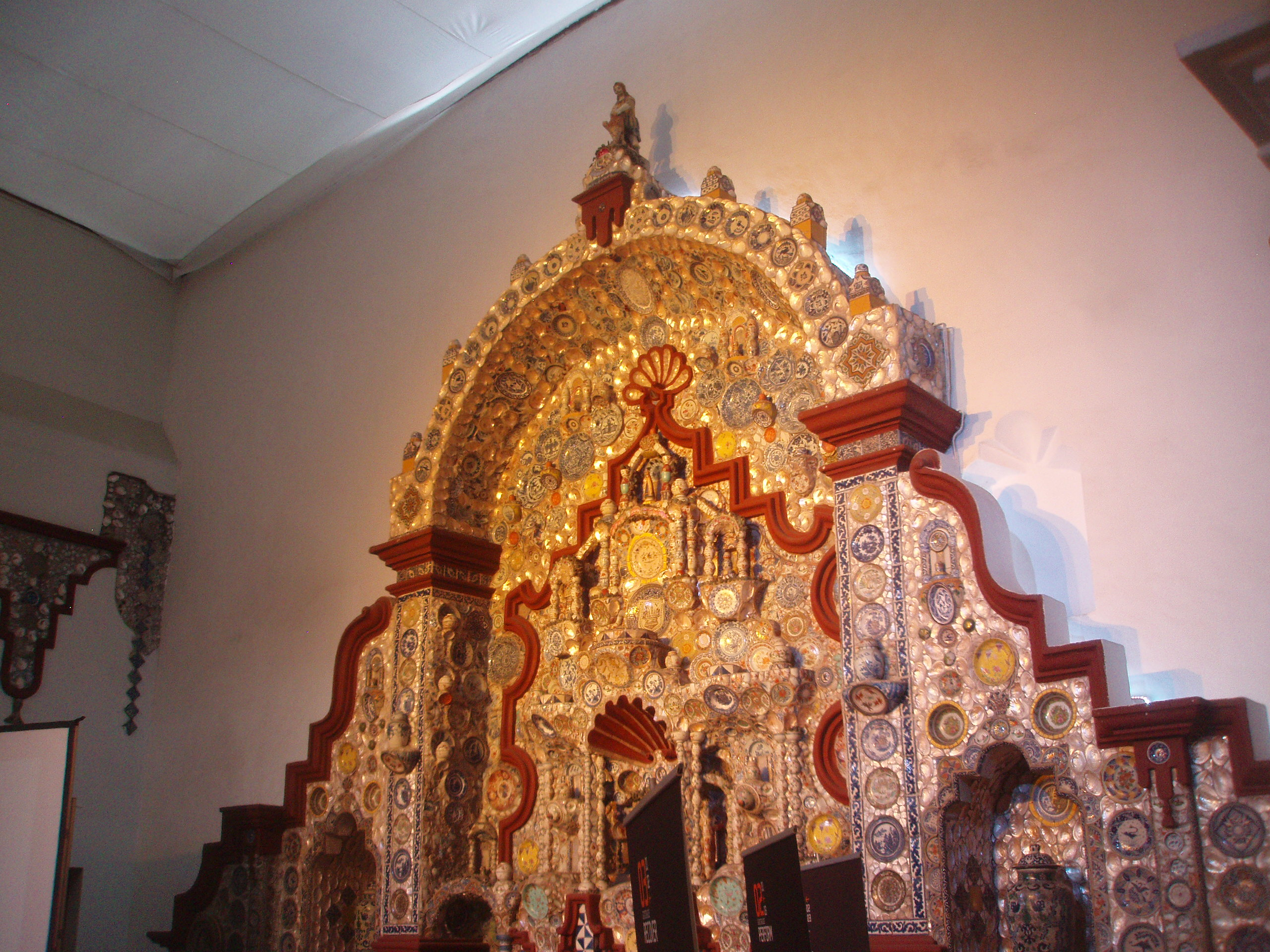 Casa del Risco, a mansion from the 17th century in San Ángel, Mexico City. Its interior contains a highly ornate Baroque fountain covered in plates, platters, cups and other ceramic pieces from Asia, Europe and Mexico. Currently a cultural center: Centro Cultural Isidro Fabela.